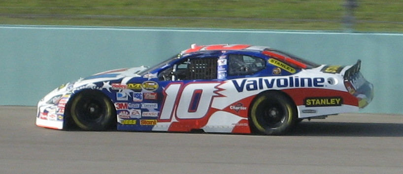 Patrick Carpentier (Dodge) practicing for the 2007 Ford 400 at the Homestead-Miami Speedway.